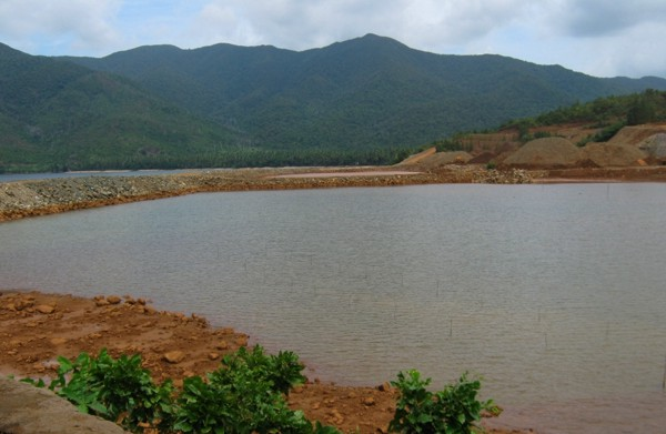 final settling pond of cagdianao mining corporation